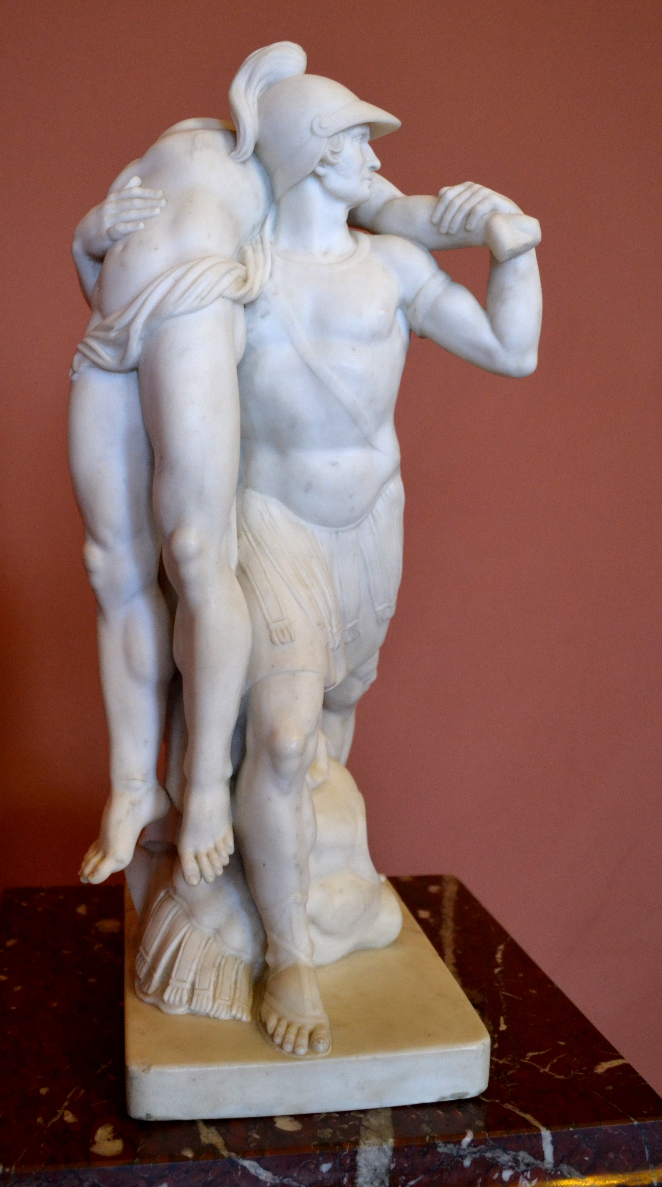 Mikhail Kozlovskiy Ayax defending the body of Patroculus